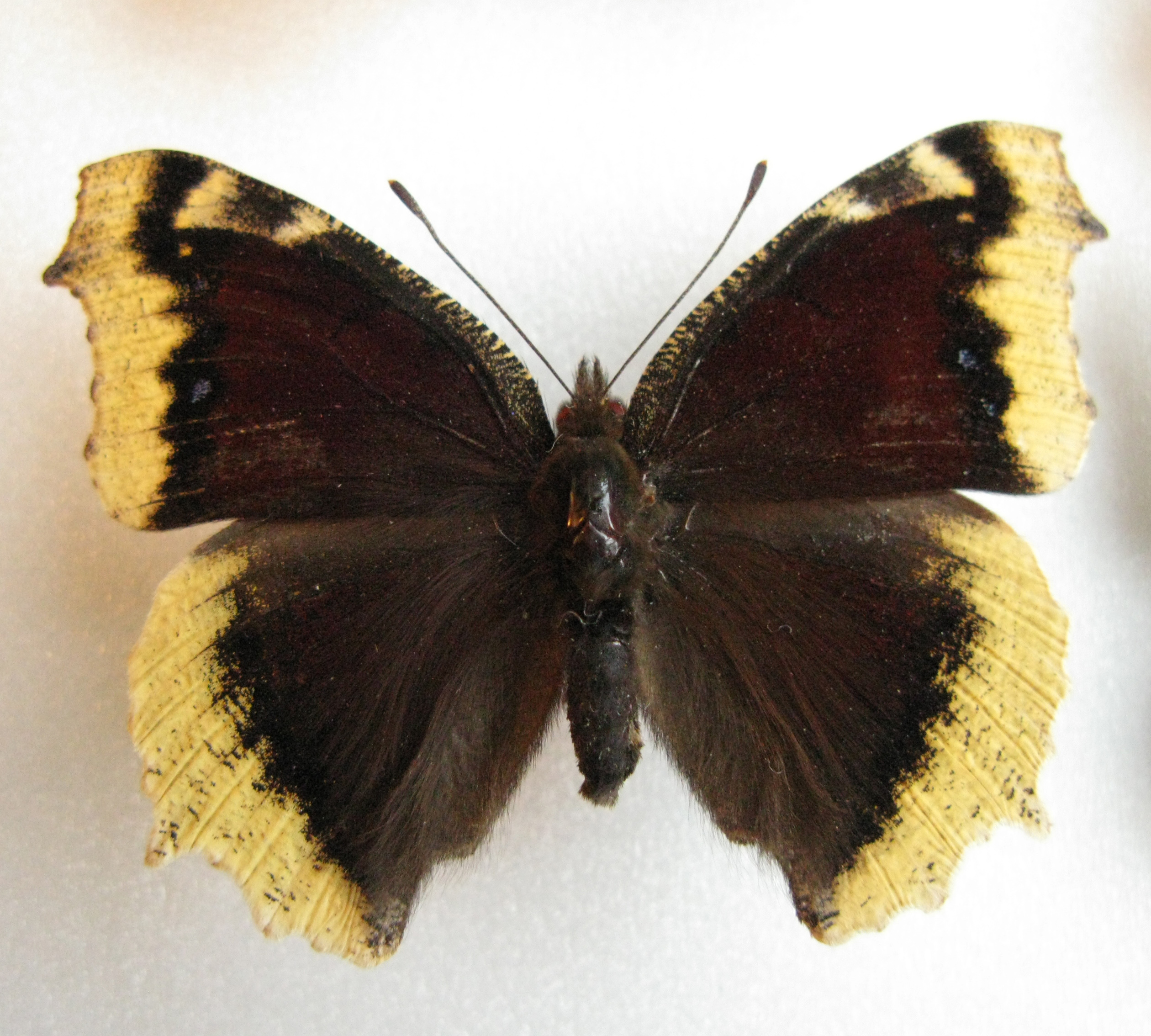 Nymphalis antiopa